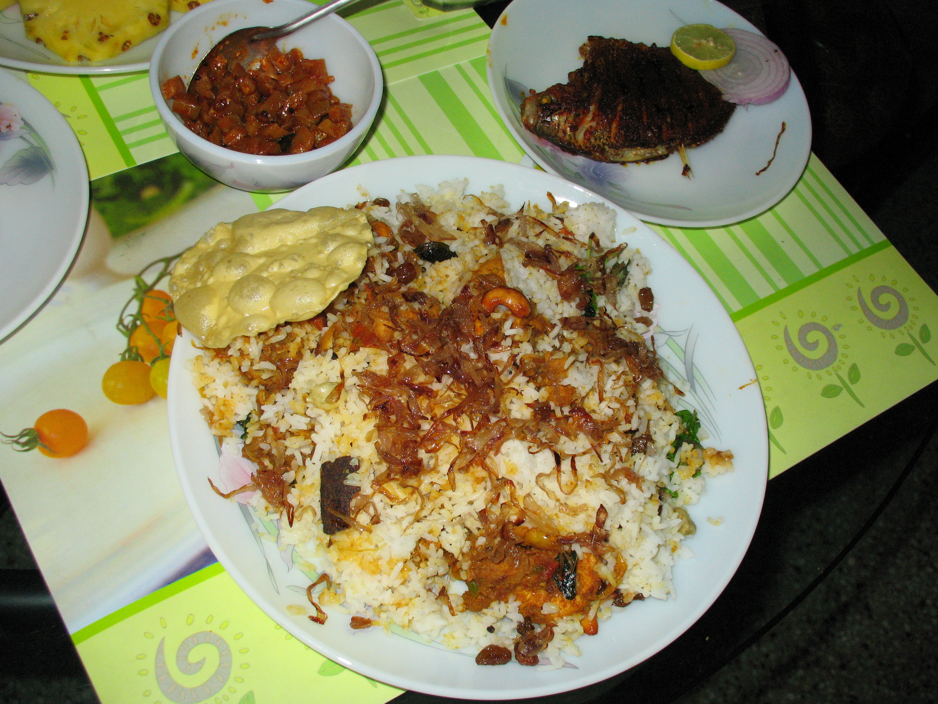 Kerala Style Biriyani